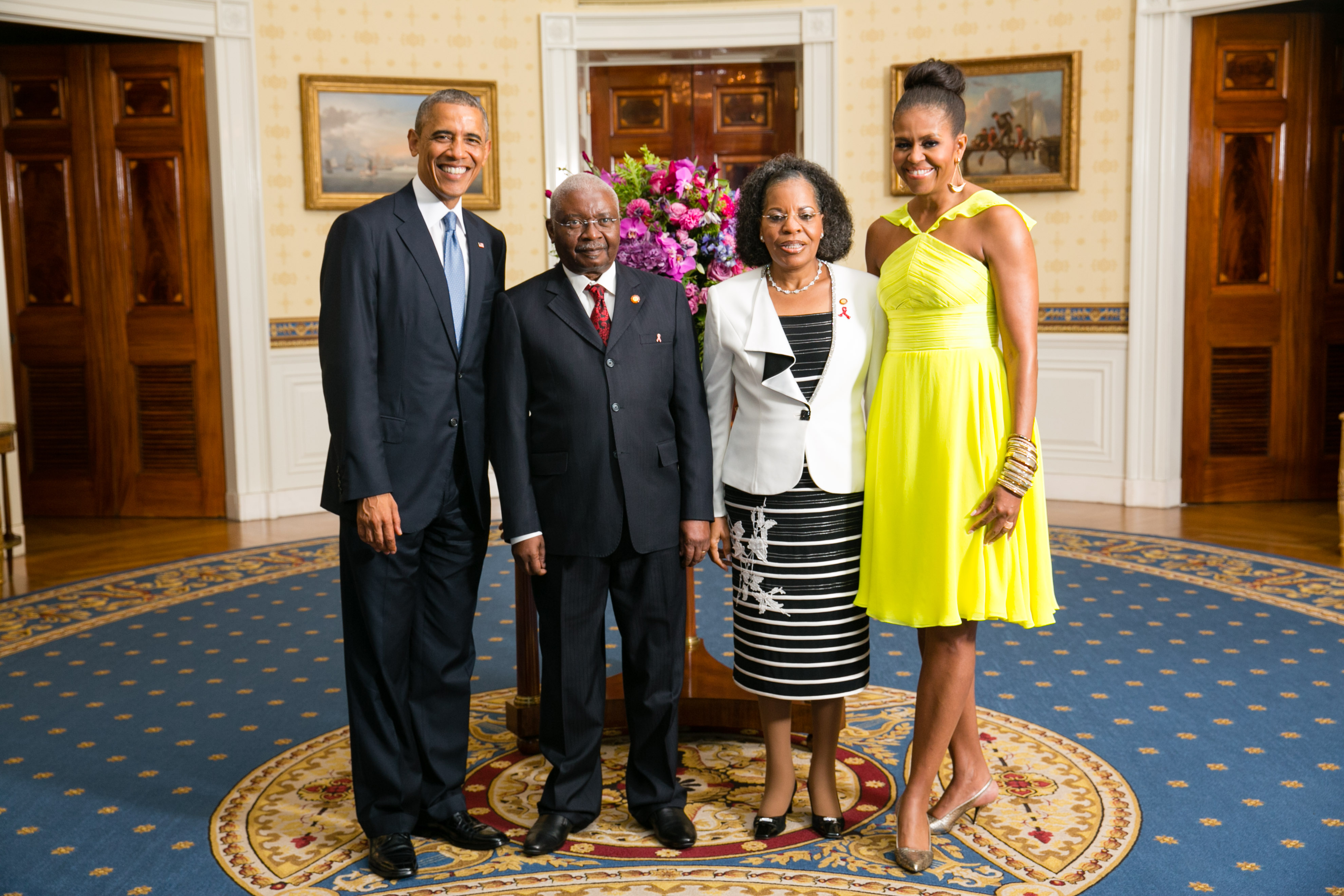 President Barack Obama and First Lady Michelle Obama greet His Excellency Armando Emilio Guebuza, President of the Republic of Mozambique, and Ms. Maria Da Luz Dai Guebuza, in the Blue Room during a U.S.-Africa Leaders Summit dinner at the White House, Aug. 5, 2014. [Official White House Photo by Amanda Lucidon] This official White House photograph is in the public domain from a copyright perspective, so while restrictions such as personality or privacy rights may apply, in general, manipulations are allowed.